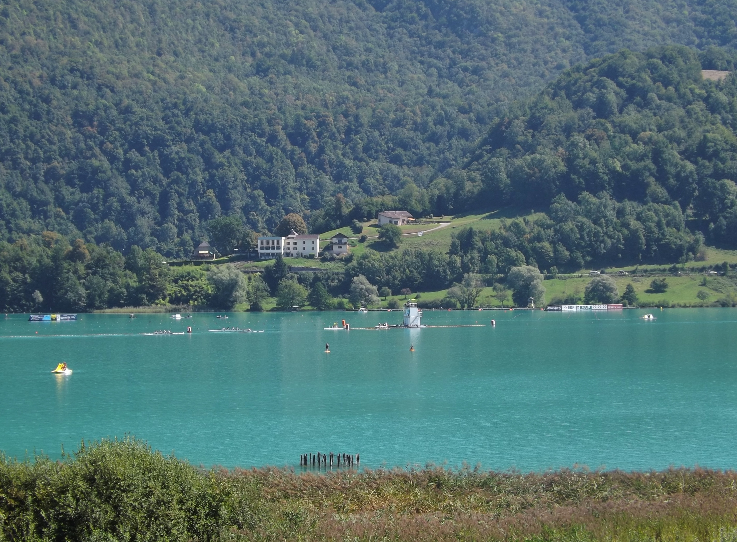 Sight of the first day of the 2015 World Rowing Championships on the lac d'Aiguebelette lake, in Savoie, France.